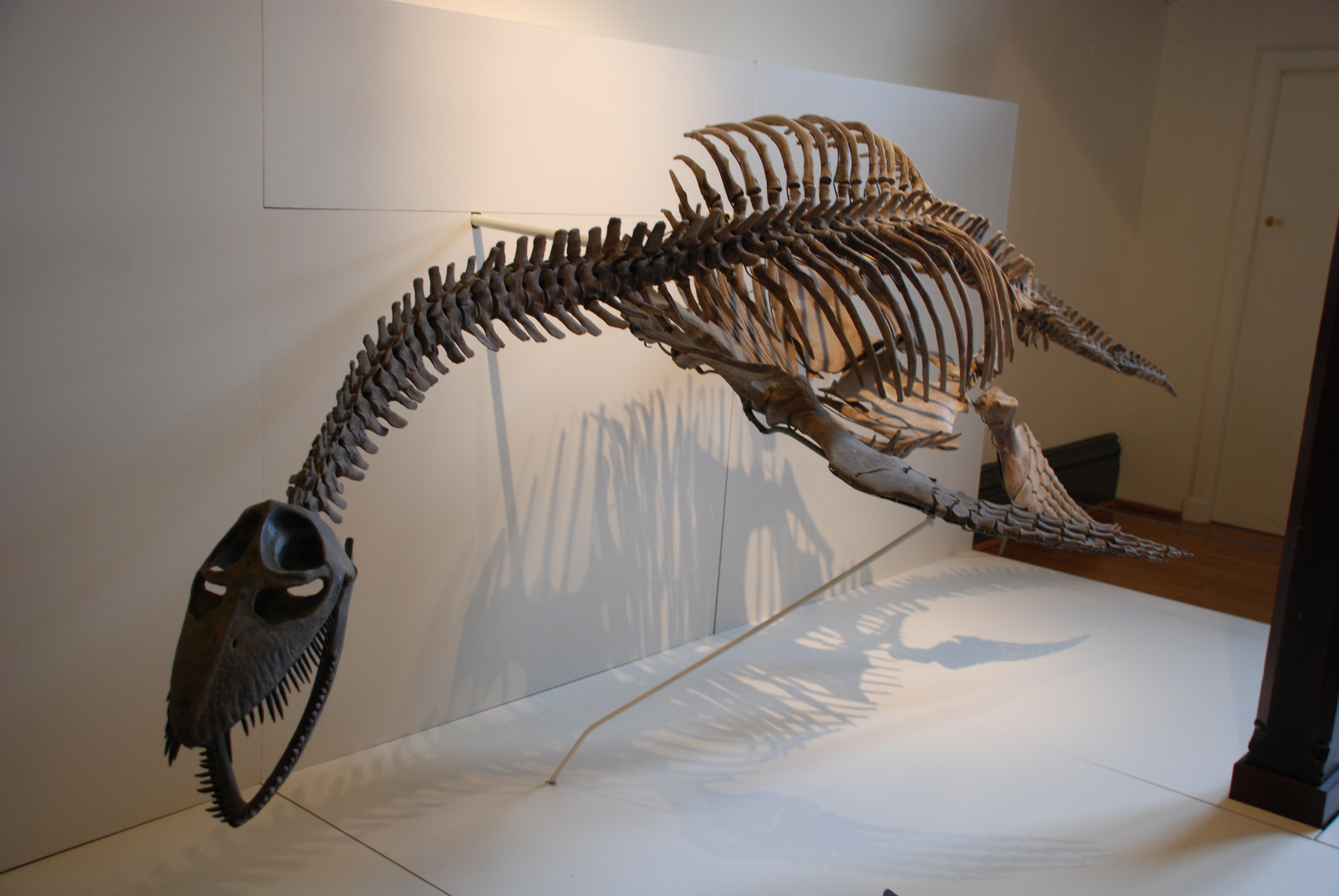 Housed in large halls in George Gilbert Scott's University buildings on Gilmorehill, the museum features extensive displays relating to William Hunter and his collections, Roman Scotland (especially the Antonine Wall, geology, ethnography, ancient Egypt, scientific instruments, coins and medals, and much more.